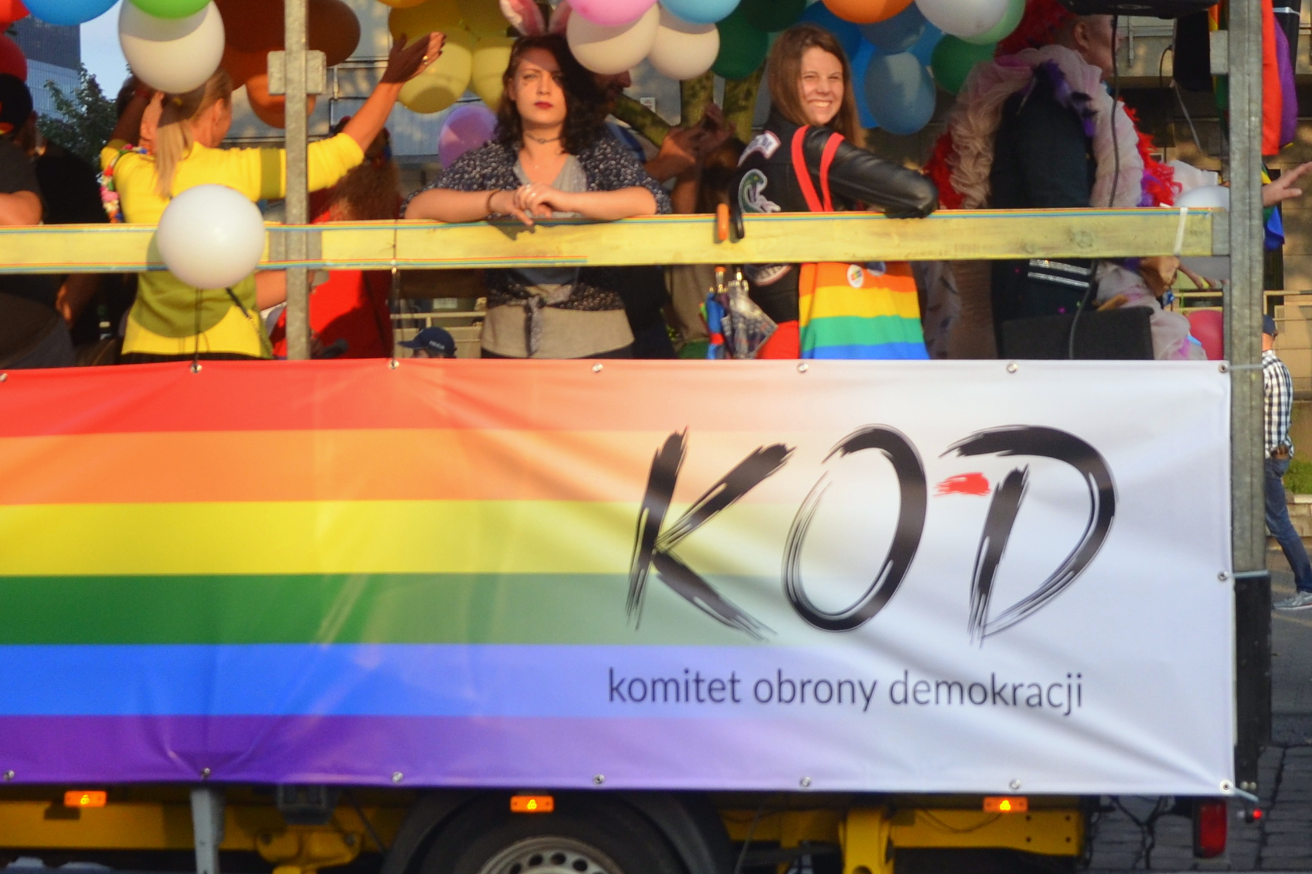 Equality March 2018 in Katowice